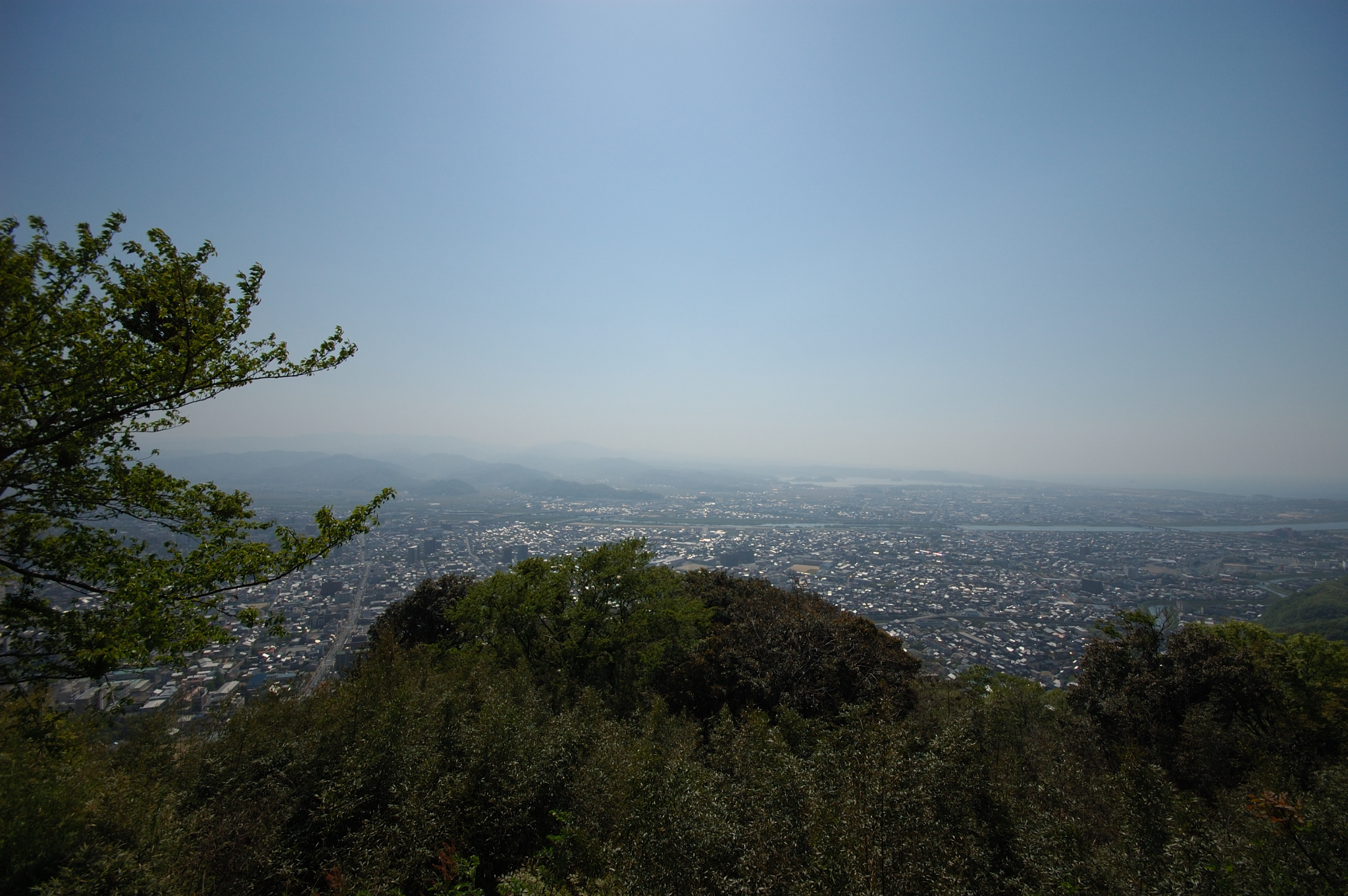 Tottori city view from Tottori castle